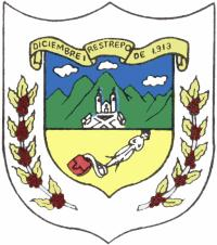 Shield of Restrepo(Valle del Cauca)